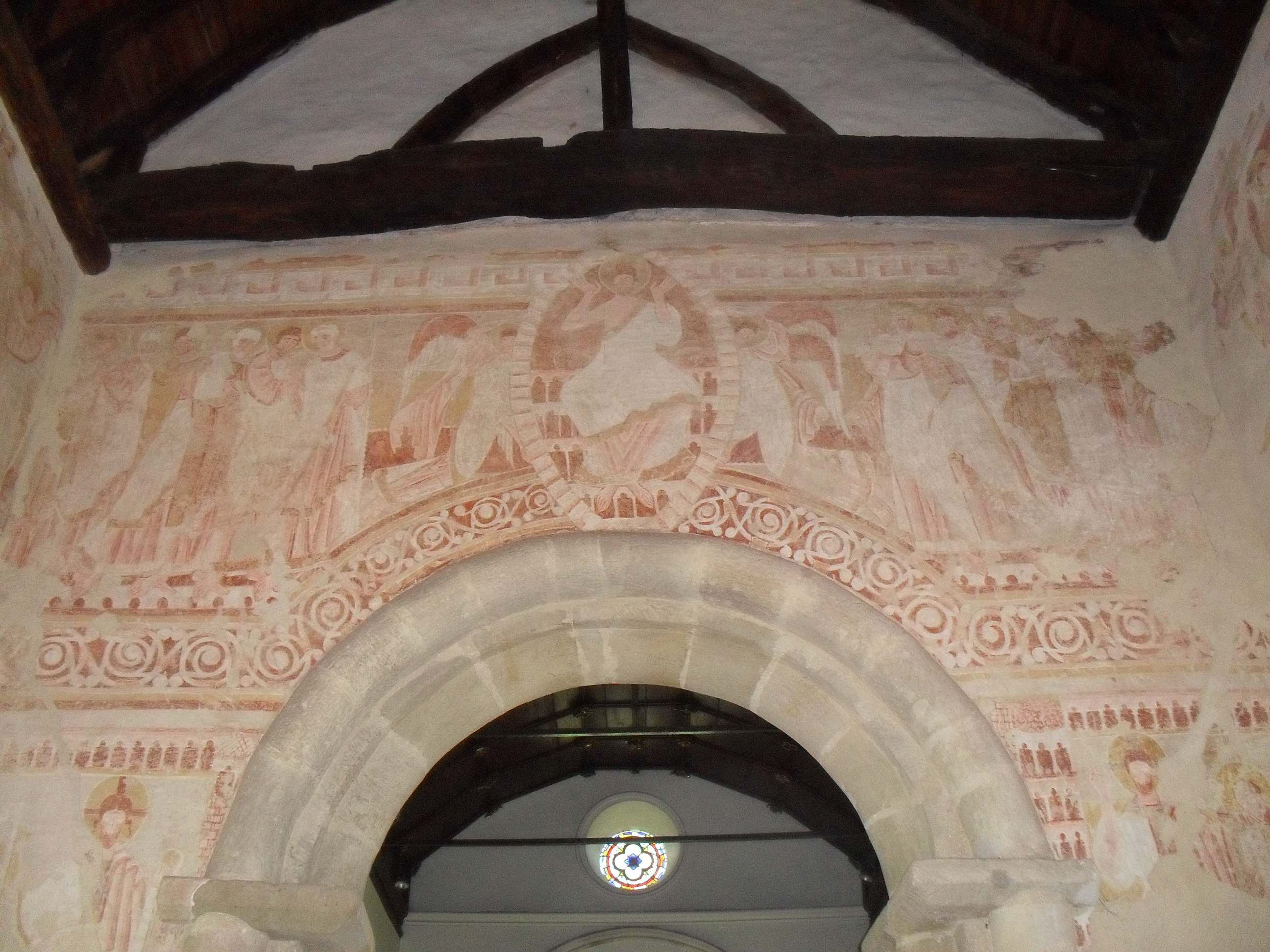 Nationally acclaimed 12th-century wall paintings on the chancel arch at the Grade I-listed Church of England parish church of St John the Baptist, Clayton, West Sussex, England.